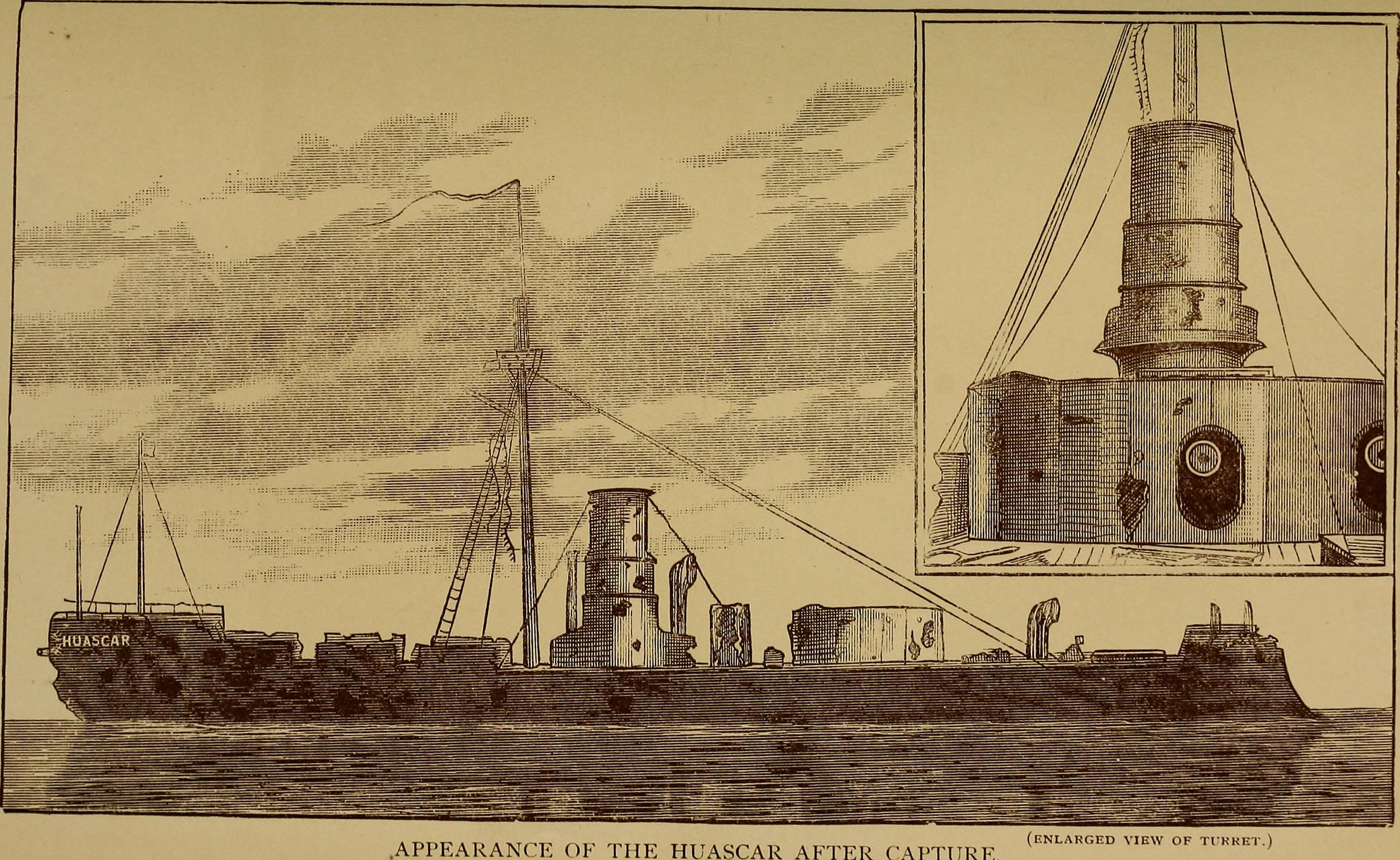 Title: Naval battles, ancient and modern Year: 1883 (1880s) Authors: Shippen, Edward, 1826-1911 Subjects: Naval battles Publisher: Philadelphia (etc.) J.C. McCurdy & co. Text Appearing Before Image: THE DREADNOUGHT. (The most powerful Ironclad of the English Navy.) Text Appearing After Image: HUASCAR. 697 XLVIII. THE CAPTURE OF THE HUASCAR. OCTOBER 8th, 1879.